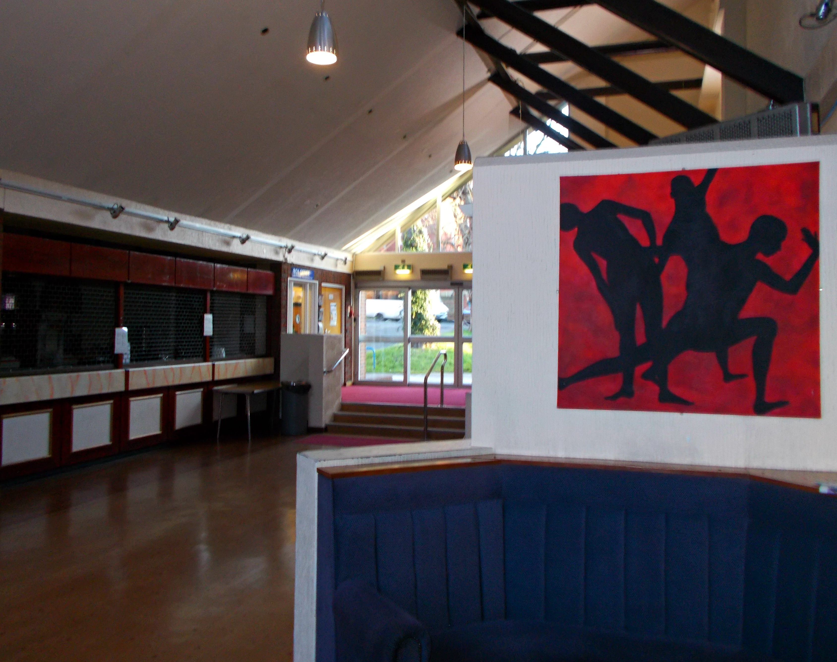 Secombe Theatre interior,Sutton, Surrey, Greater London